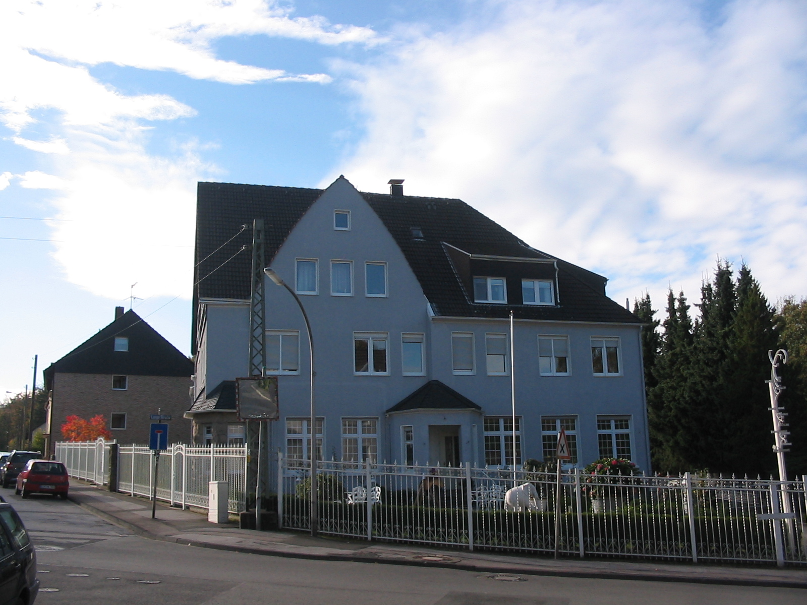 Seminar centre Borbachschlösschen in Witten, Germany